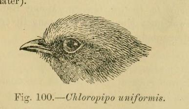 Illustration of Olive Manakin Xenopipo uniformis (syn Chloropipo uniformis) from The birds of British Guiana: based on the collection of Frederick Vavasour McConnell (1921)